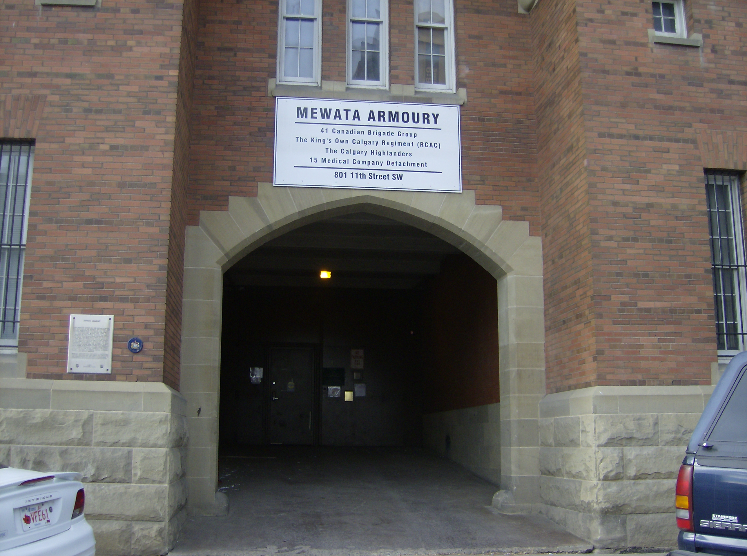 The main entrance to Mewata Armouries at 801 11 Street SW, Calgary, Alberta, Canada. This is the East side of the building, running along 11 Street.